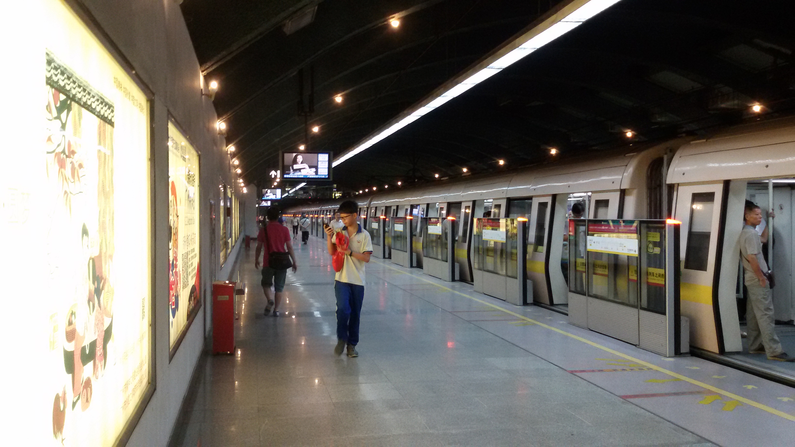 Station Platform for Huadiwan Station